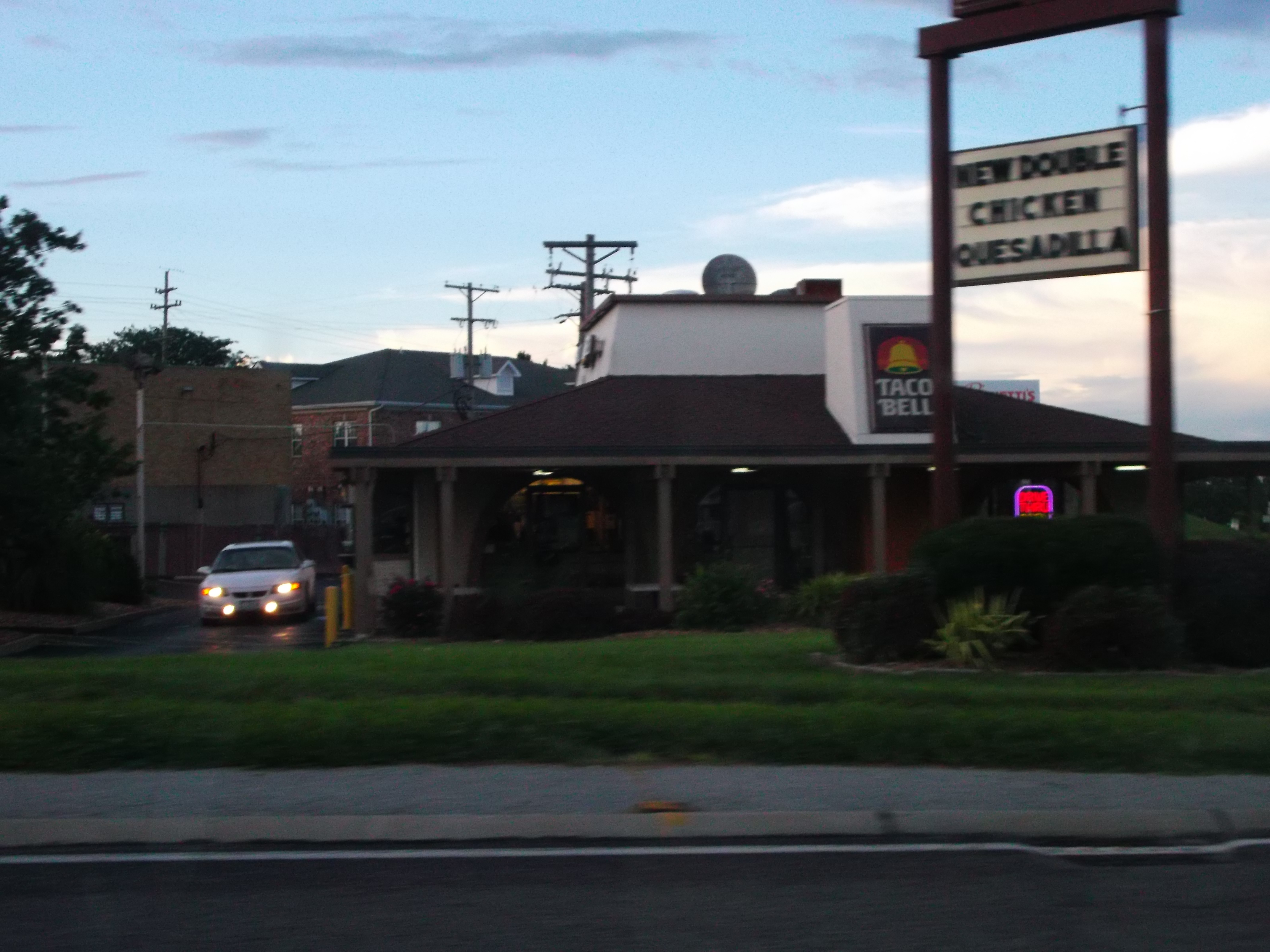 Taco Bell, formerly Zantigo, in St. Louis, Missouri